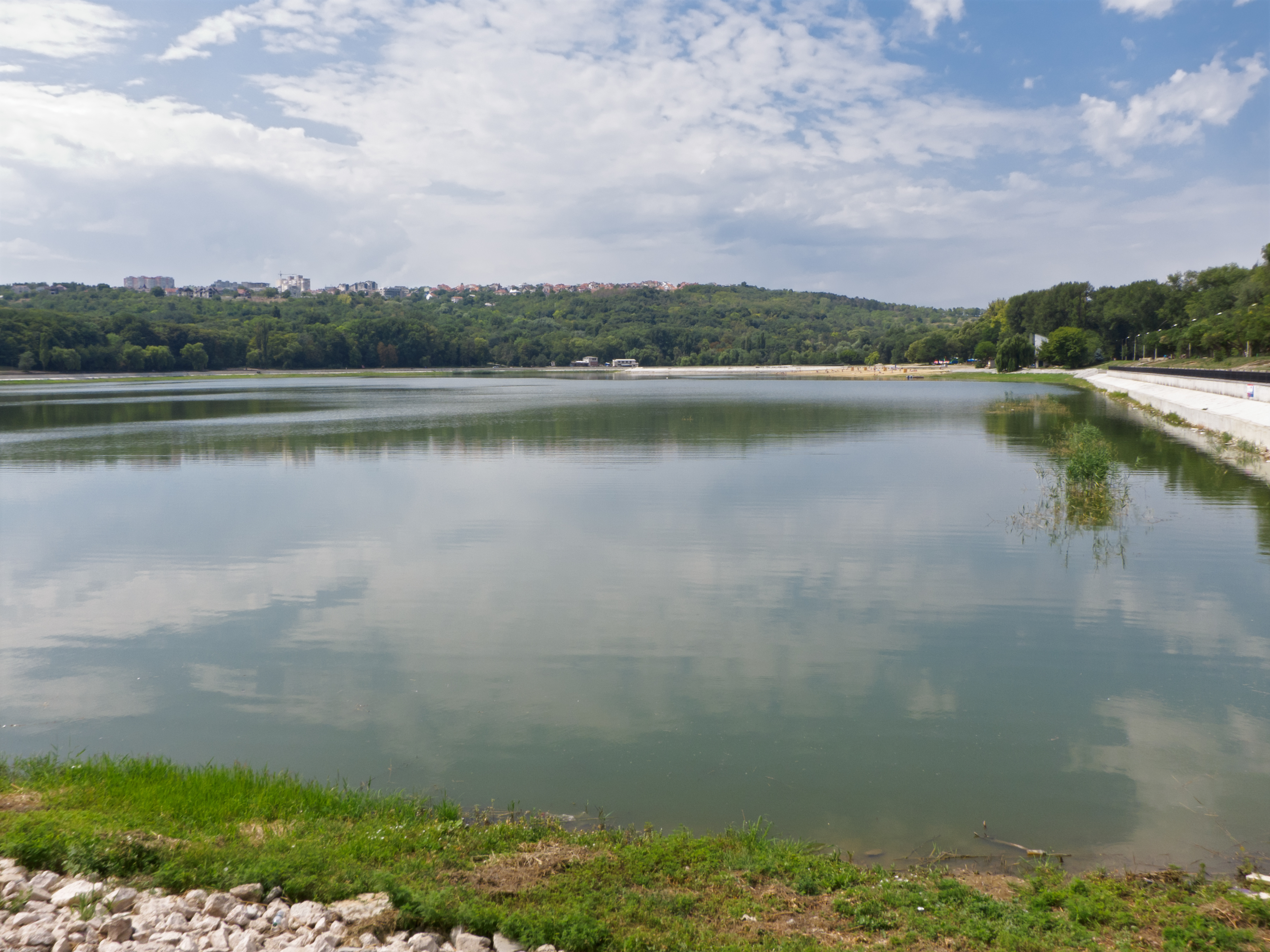 Valea Morilor Lake in Chişinău, Moldova.